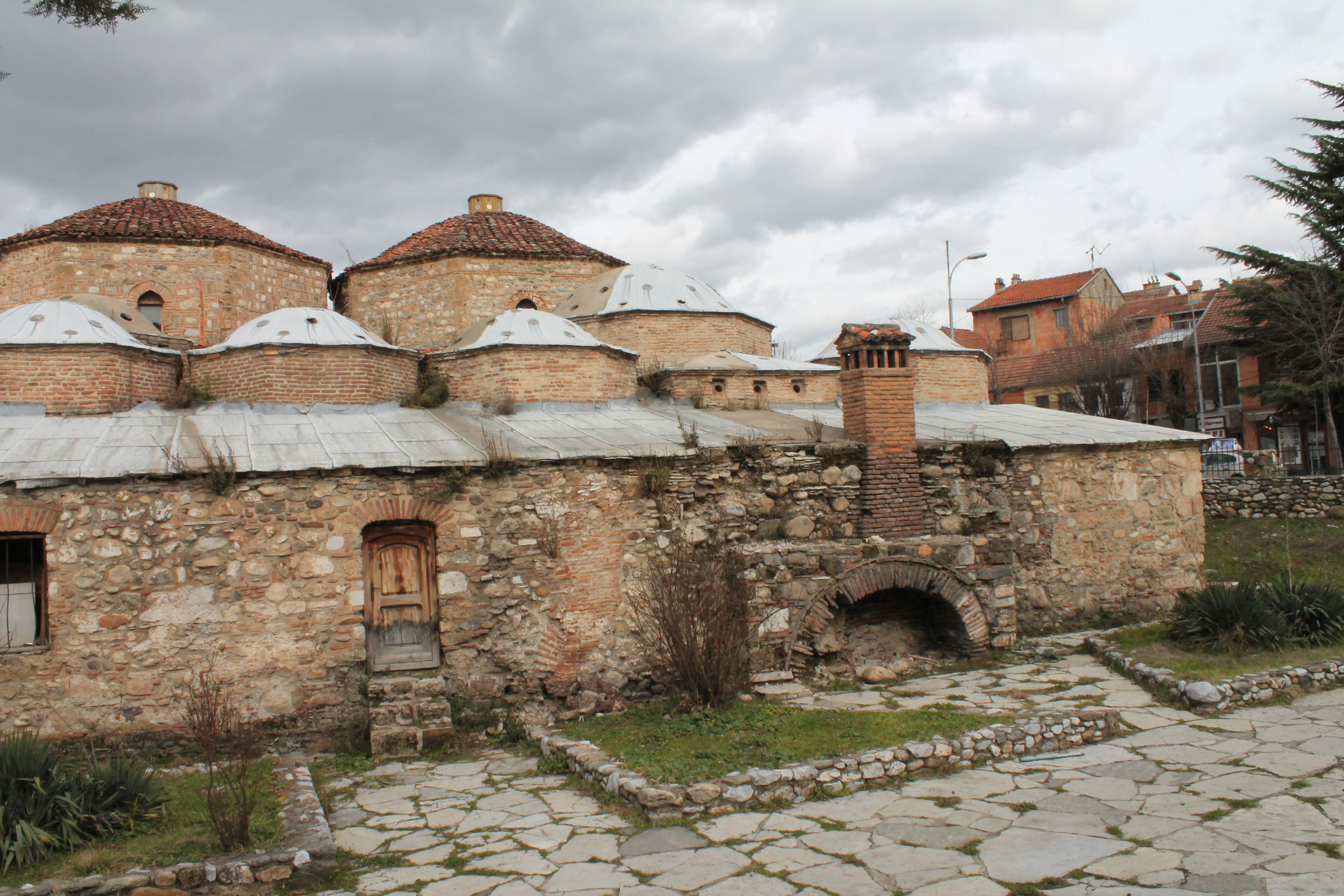 Hamami i vjetër i Prizrenit